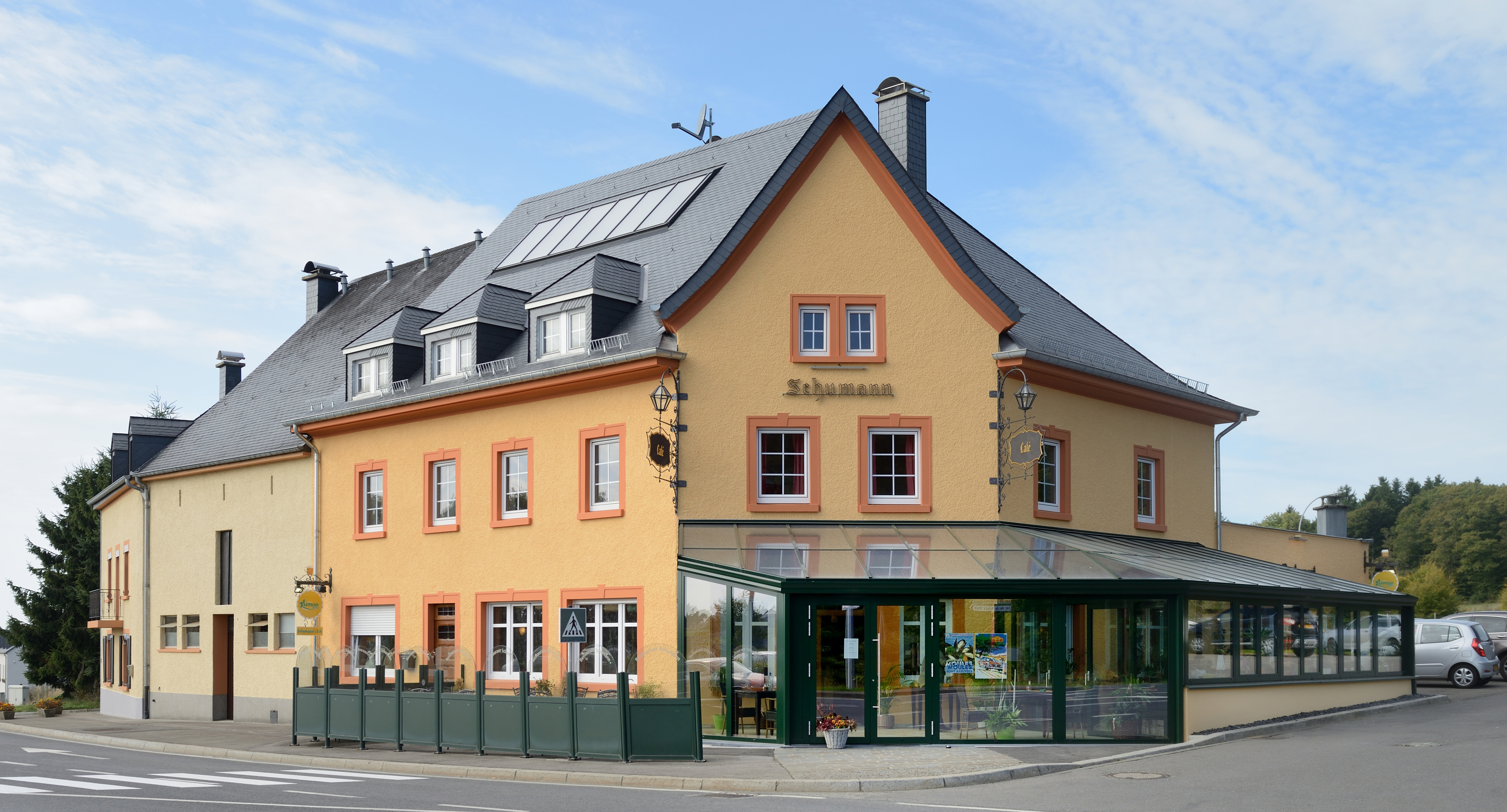 Luxembourg, commune of Lac de la Haute-Sûre: restaurant at Schumannseck.